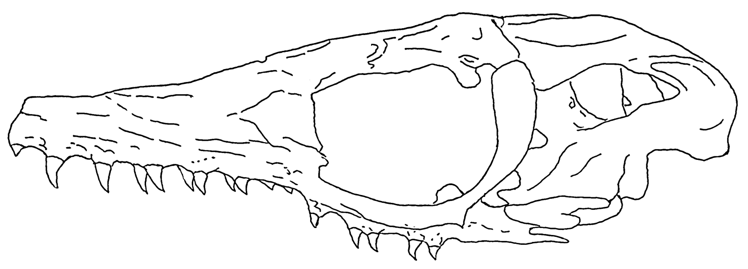 Illustration of HMG-1528, the holotype skull of Phosphorosaurus ponpetelegans, based upon figures in Konishi et al. 2015